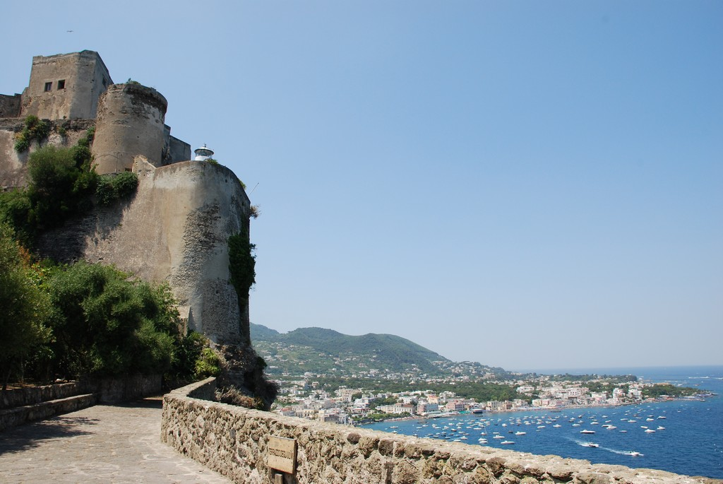 From "Terrazzo degli Ulivi" there is this great view. To the left the beach of Ischia Porto, while to the right you can see the other near isles (Procida and, very far, Capri)